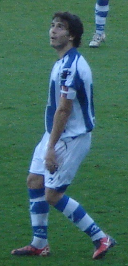 Javier Ros playing for Real Sociedad B agains Guijuelo in 2011